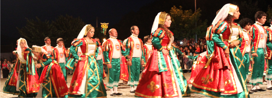 S. João - Marchas